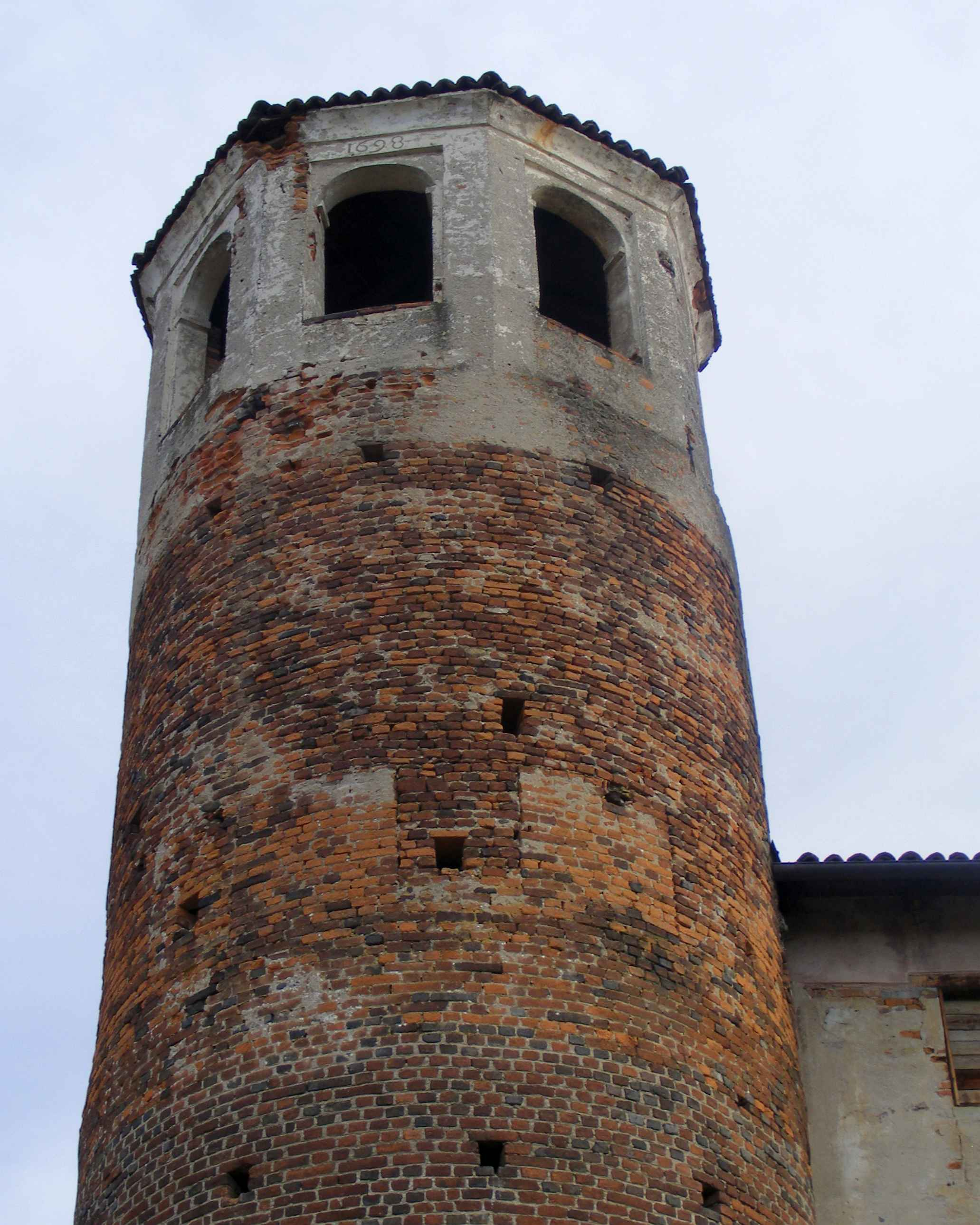 Castle of Verrone (BI, Italy): south-west tower